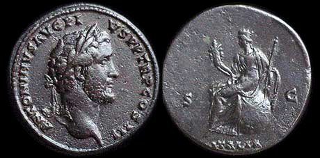 Antoninus Pius. 138-161 AD. Æ Sestertius (26.54 gm). 140-144 AD. ANTONINVS AVG PI-VS P P TR P COS III, laureate head right S-C, Italia seated on globe, holding cornucopiae and sceptre; ITALIA below. RIC III 746a; Cohen 464. Coin from CNG coins, through Wildwinds.